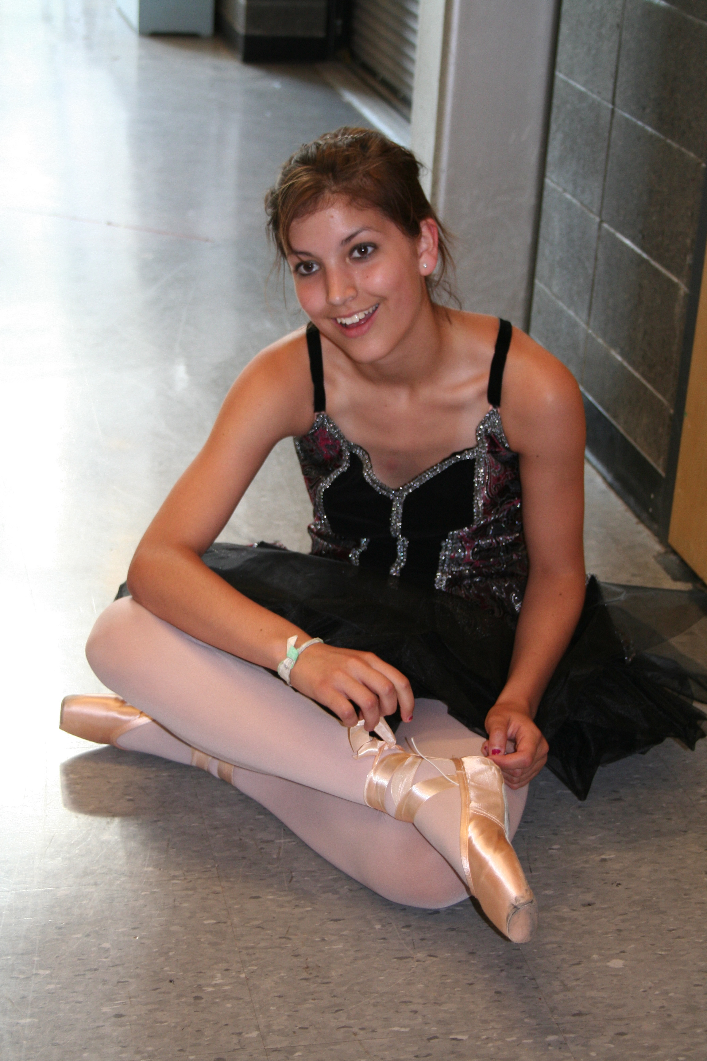 2006 - Middle daughter Maura at ballet practice.